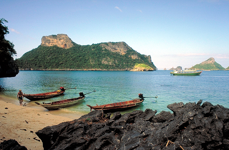 Landing site